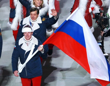 2014 Winter Olympics opening ceremony (2014-02-07)